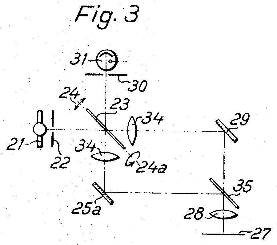 Images from the US-patent 3518014, "Device for Optically scanning the object in a microscope